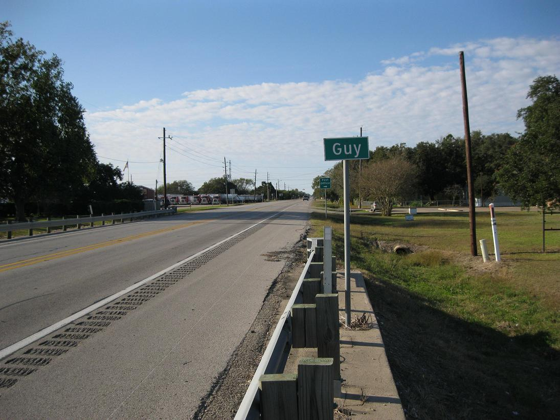 The view is northwest on Highway 36. The location is just southeast of the intersection with FM 1994.